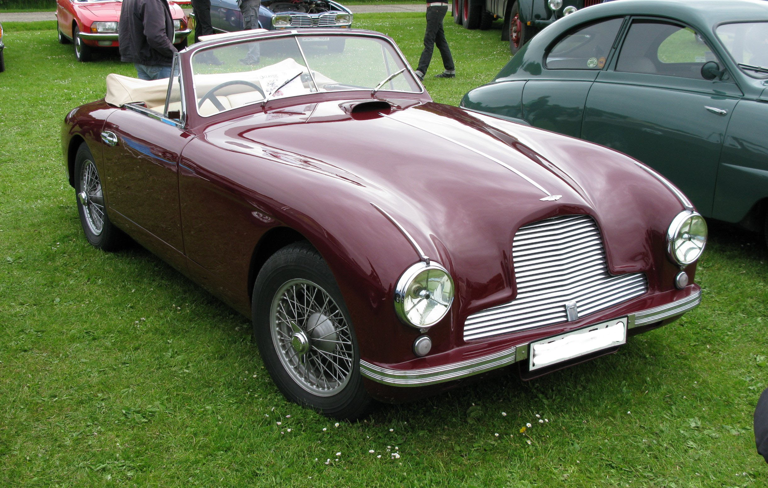 1951 Aston Martin DB2 drop head coupe.Event: Tjolöholm Classic Motor 2009